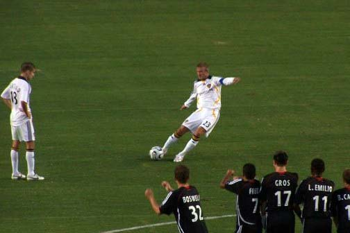 My own personal photo of David Beckham.